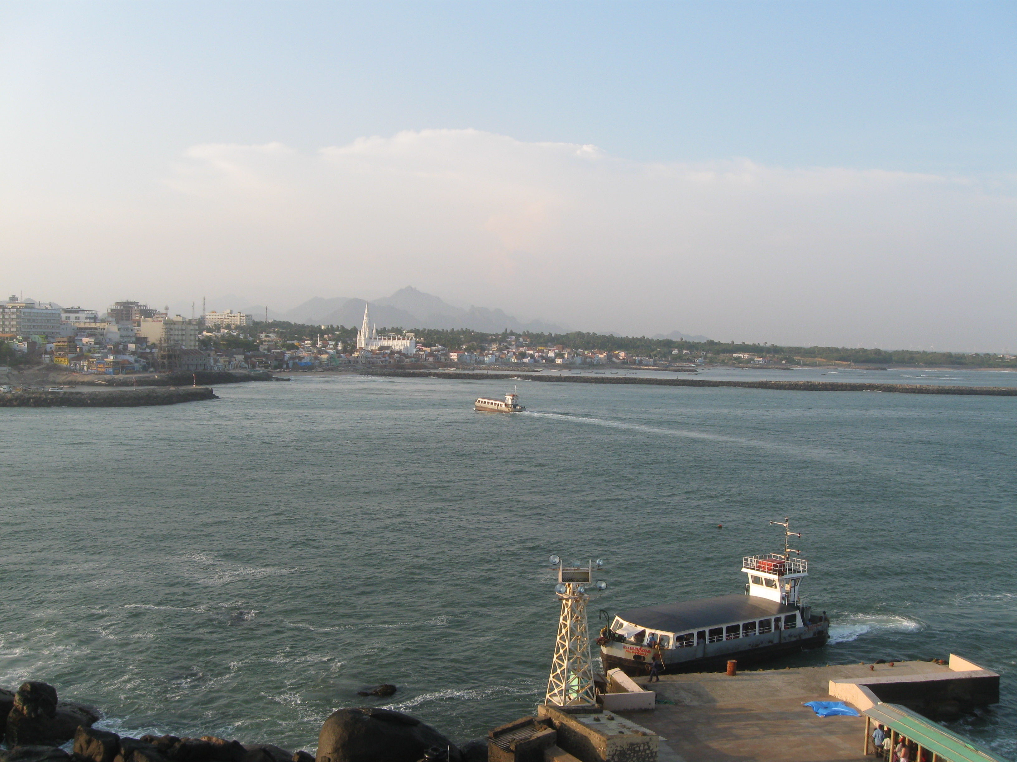 Kanyakumari town as seen from Tiruvalluvar Statue. The ferries which transport tourists from mainland to the islands can be seen with one returning to the mainland and the other one about to stop at the Tiruvalluvar statue after carrying over tourists from Vivekananda Rock